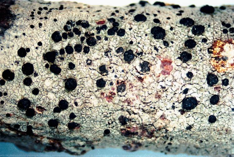 Buellia stillingiana J. Steiner, 1919 (photograph of a herbarium specimen) Growing on a twig, on the bank of the Pocomoke River about 1 mile from Shad Landing State Park, Worcester County, Maryland, USA; collected and identified by Elmer G. Worthley (No. LH-66, 28 Oct 1978); specimen is now in the Lichen Herbarium of the New York Botanical Garden.